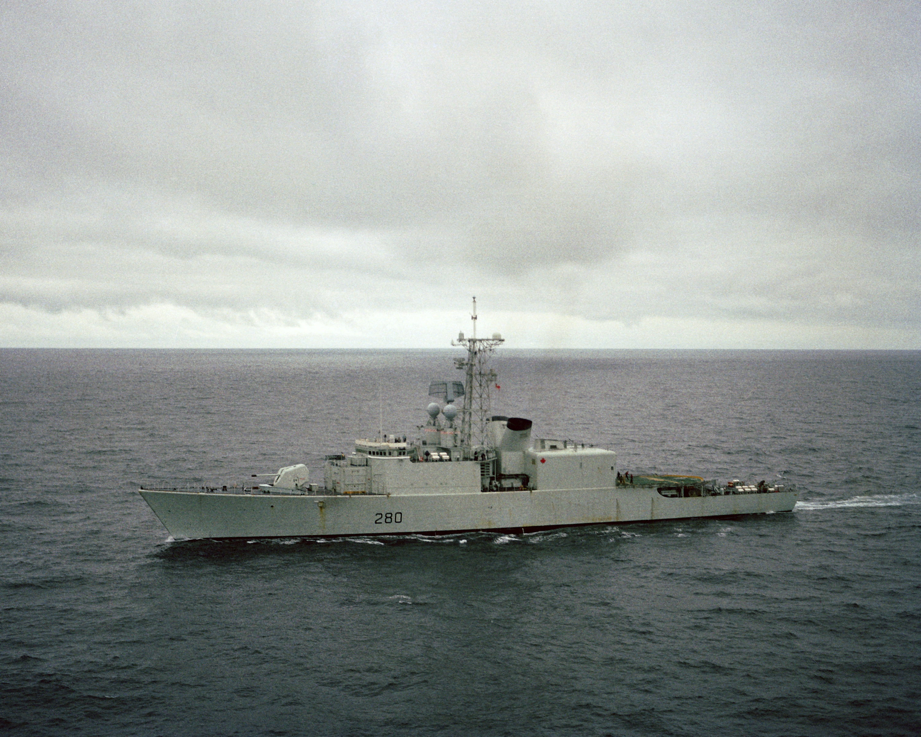 The Canadian destroyer HMCS Iroquois (DDH 280) underway.